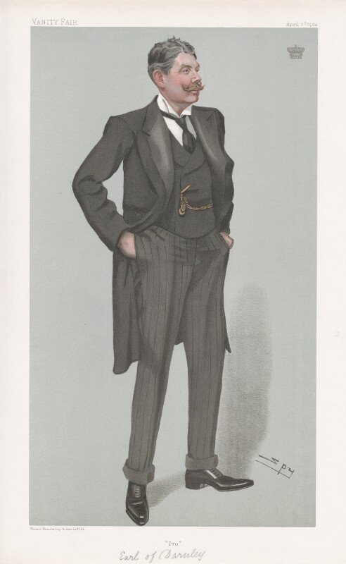 Caricature of Ivo Bligh, 8th Earl of Darnley.